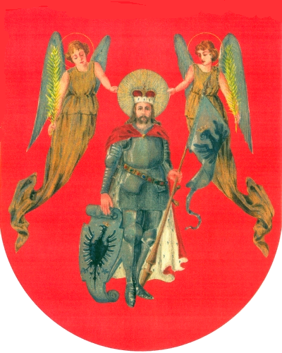 Coat of Arms of Choceň, Ústí nad Orlicí District, Czech Republic.